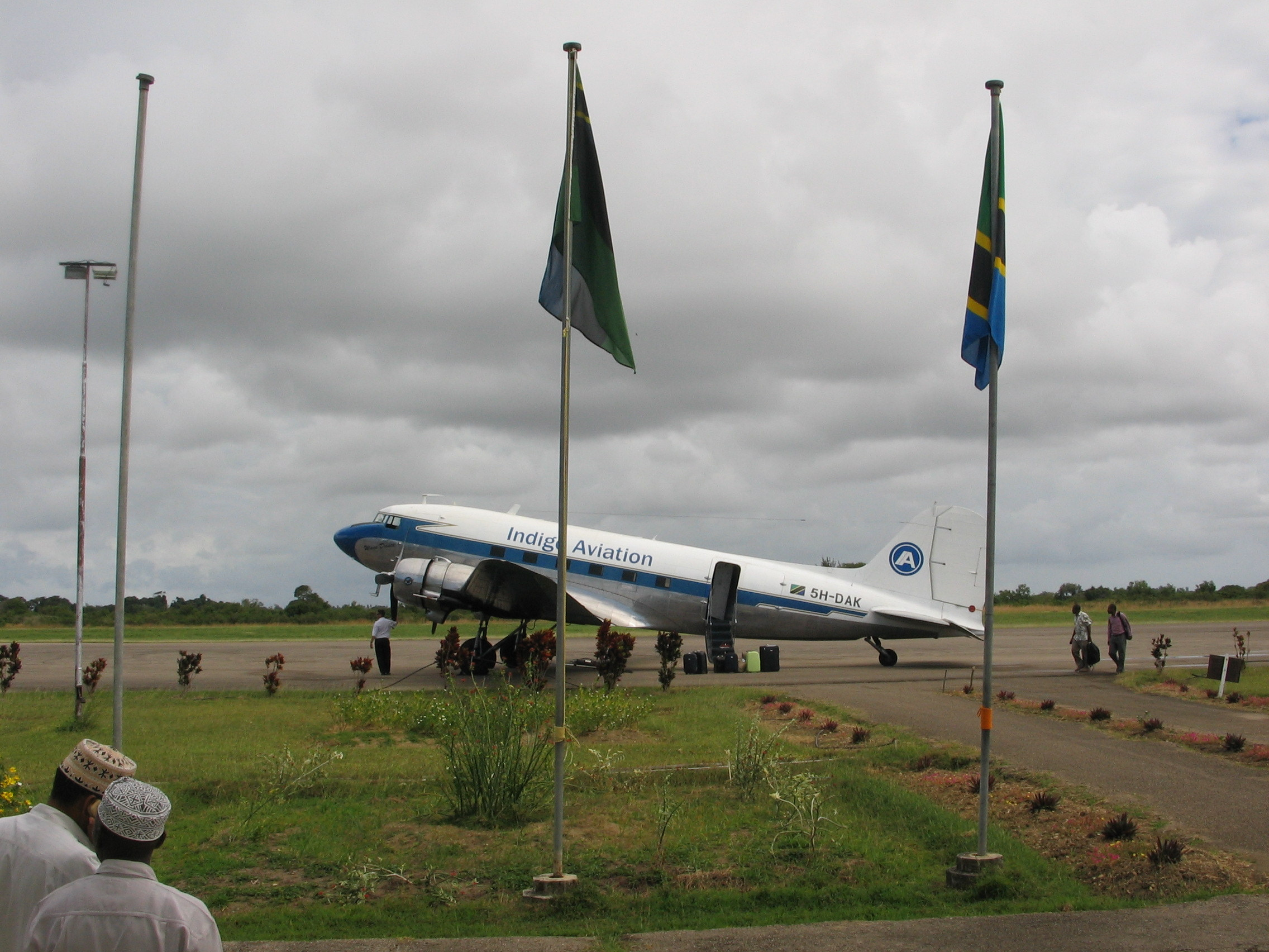 DC3 (built 1943, INDIGO Aviation) at Karume Airport (Chake-Chake, Pemba, Tanzania)